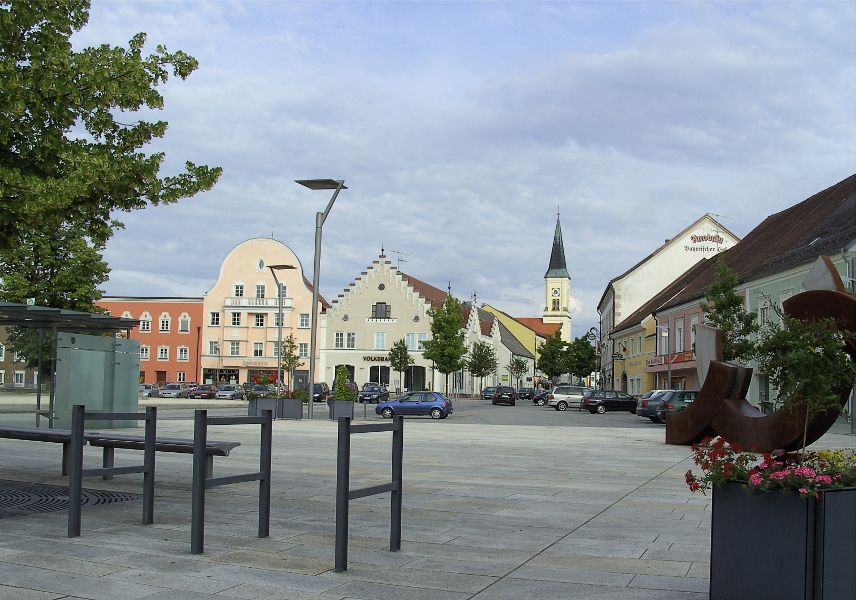 Town center of Osterhofen